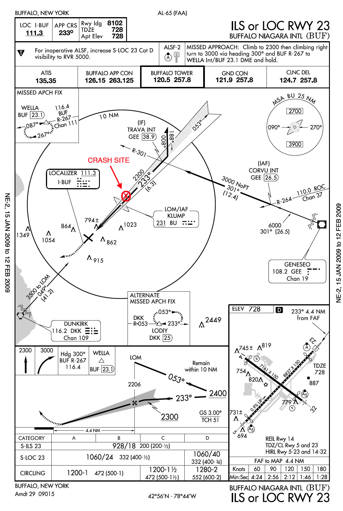 FAA ILS approach plate for runway 23 at Buffalo Niagara International Airport (KBUF) marked with the location of the crash site of Colgan Air Flight 3407.